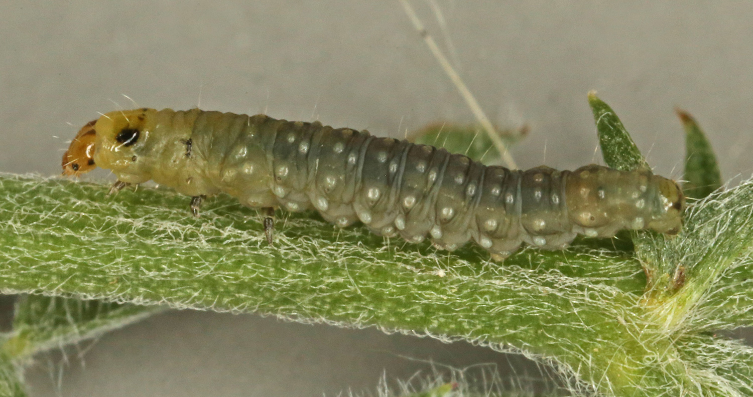 Ancylis badiana, Bagillt, North Wales, Oct 2015